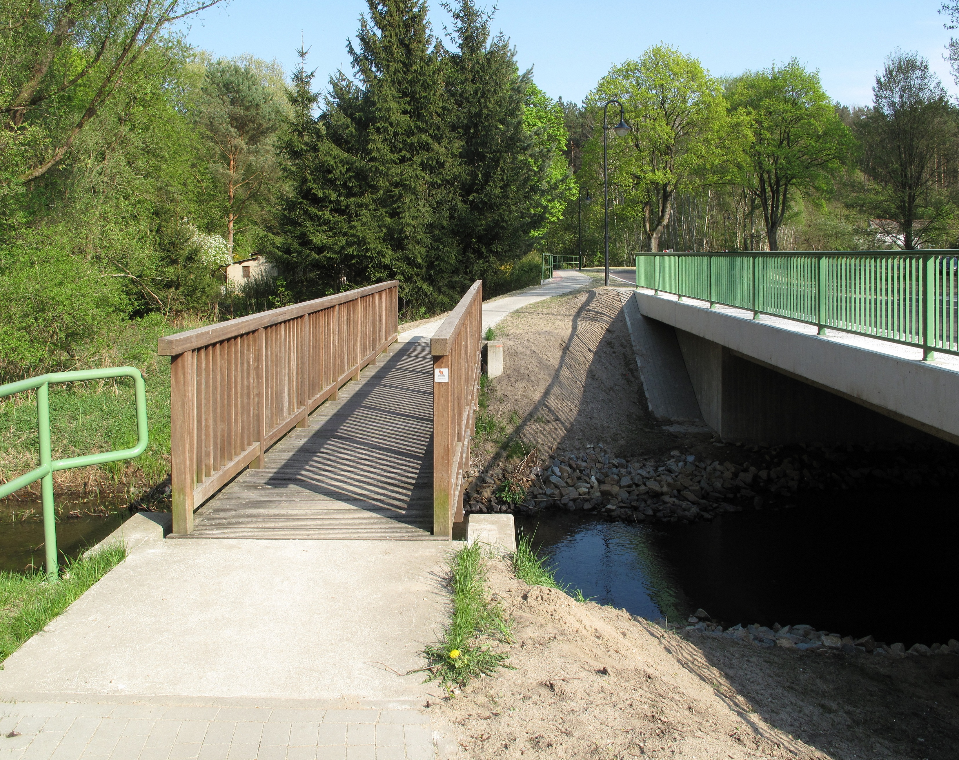 New Löcknitzbridge in Kienbaum. The bridge ober the river Löcknitz was built in 2011. The village Kienbaum is a part of the municipality Grünheide, District Oder-Spree, Brandenburg, Germany. The village had in 2011 approximately 300 inhabitants.